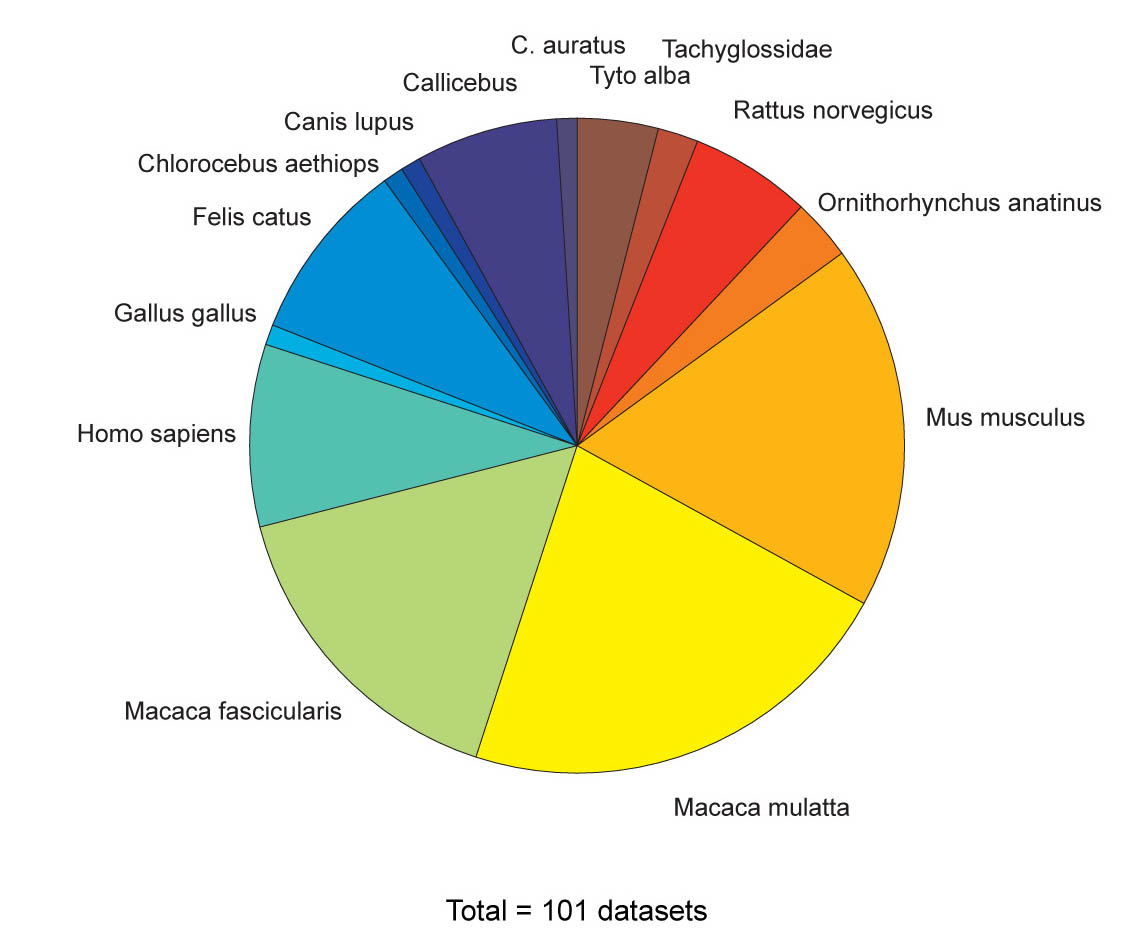 from , released under Creative Commons Attribution 3.0 License